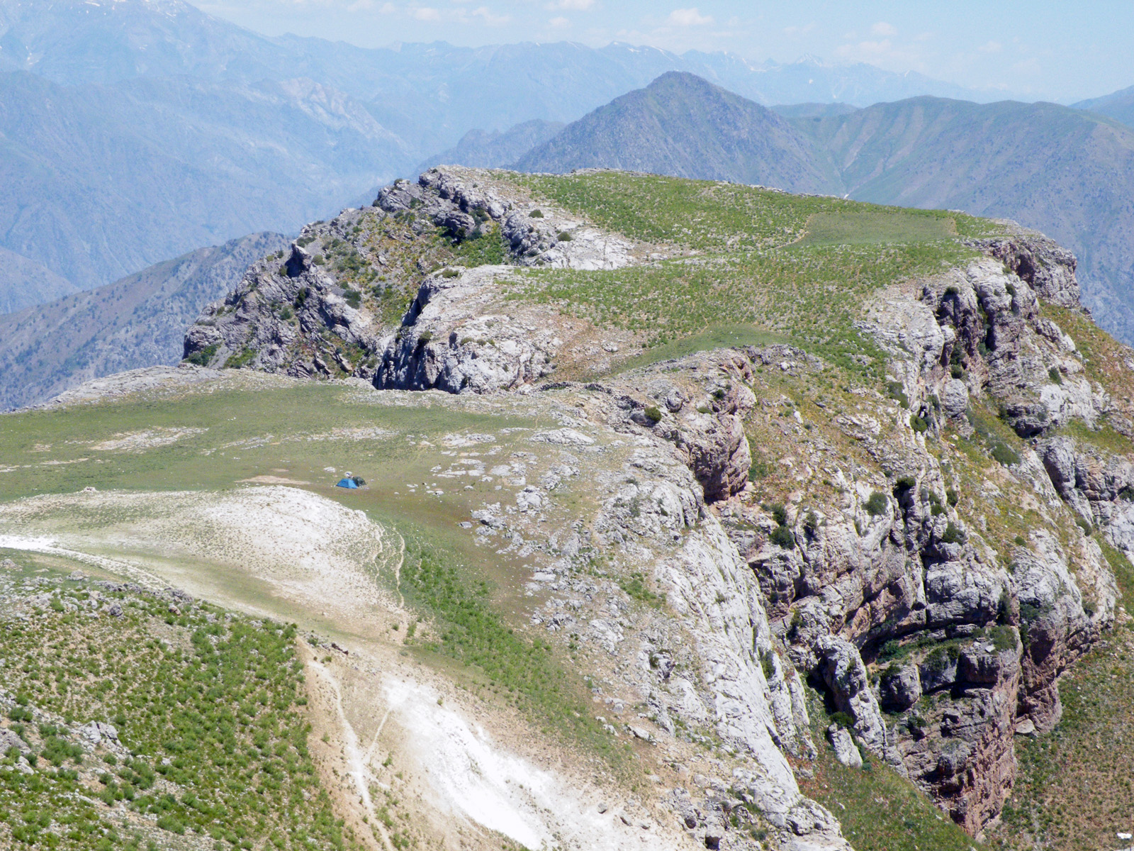 Small Pulatkhan and Pulat's wall. Pulatkhan plateu. Tashkent area, Uzbekistan.